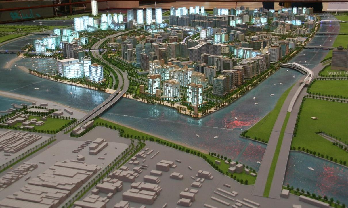 This is a photo showing a model of Deira Island, a part of The Palm Deira, located in Dubai, United Arab Emirates. This model was on display in Ibn Battuta Mall on 2 January 2007.